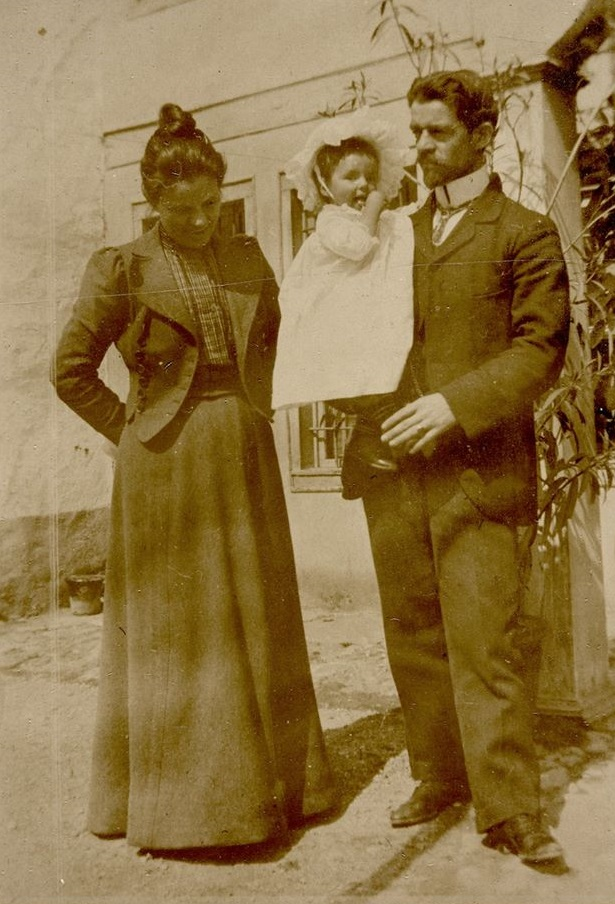 Grigor Cilka with wife Katerina Stefanova-Cilka and their baby Eleni